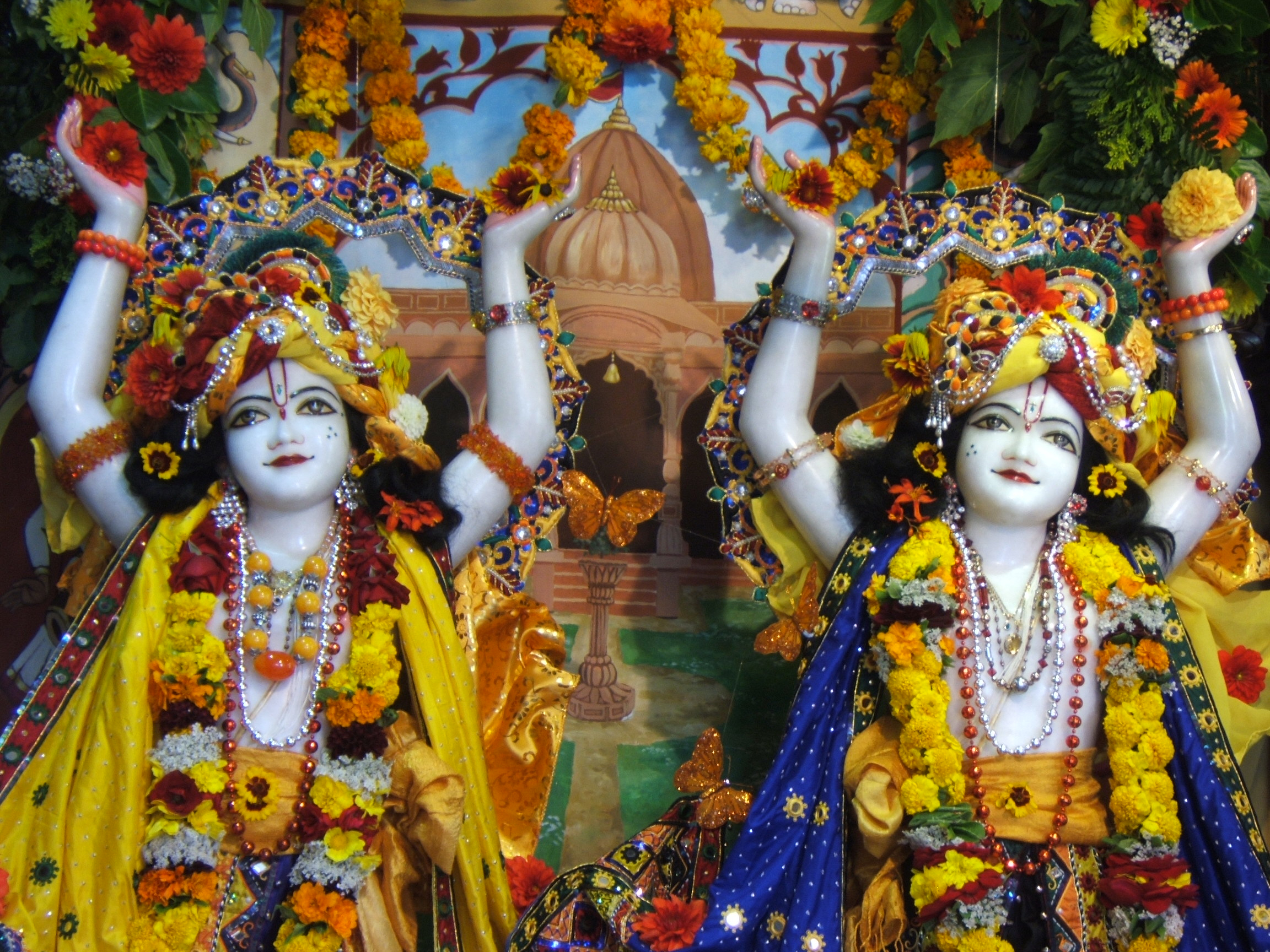 Murtis of Chaitanya and Nityananda at New Mayapur Hare Krishna community in the department of Indre in central France.